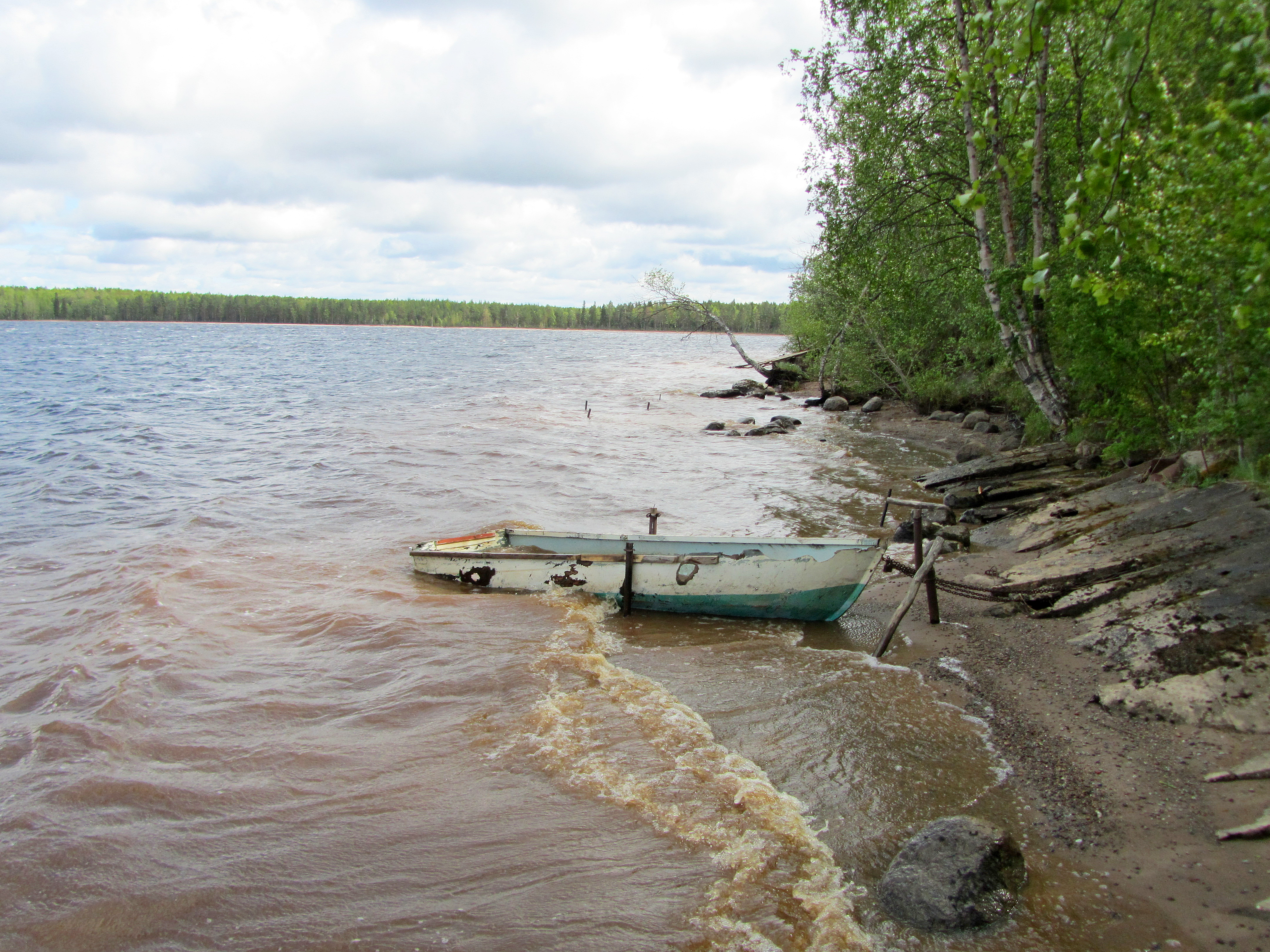 Lake Korodskoe.